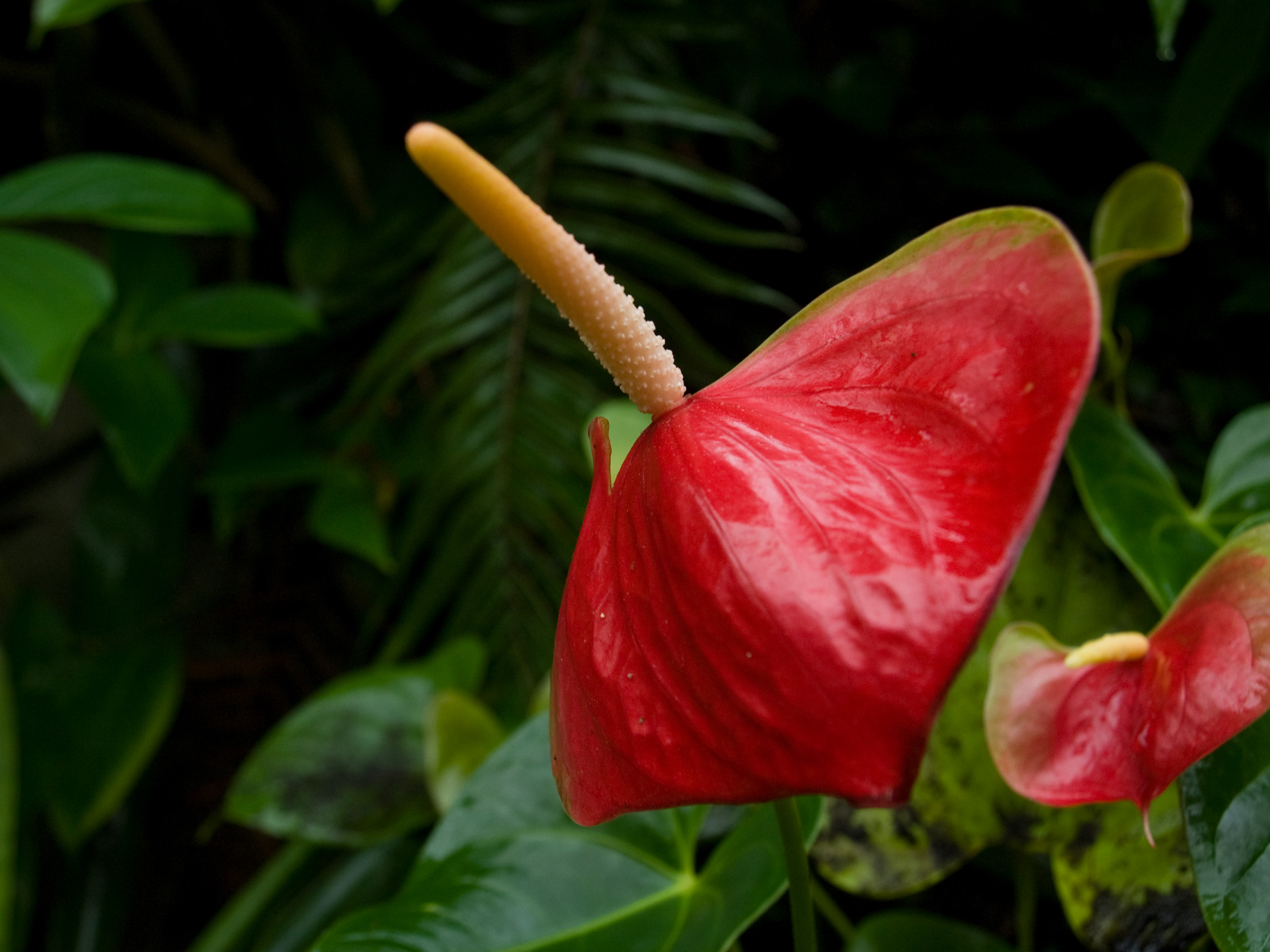 Anthurium sp., Fata Morgana greenhouse, Prague Botanic Garden in Troja